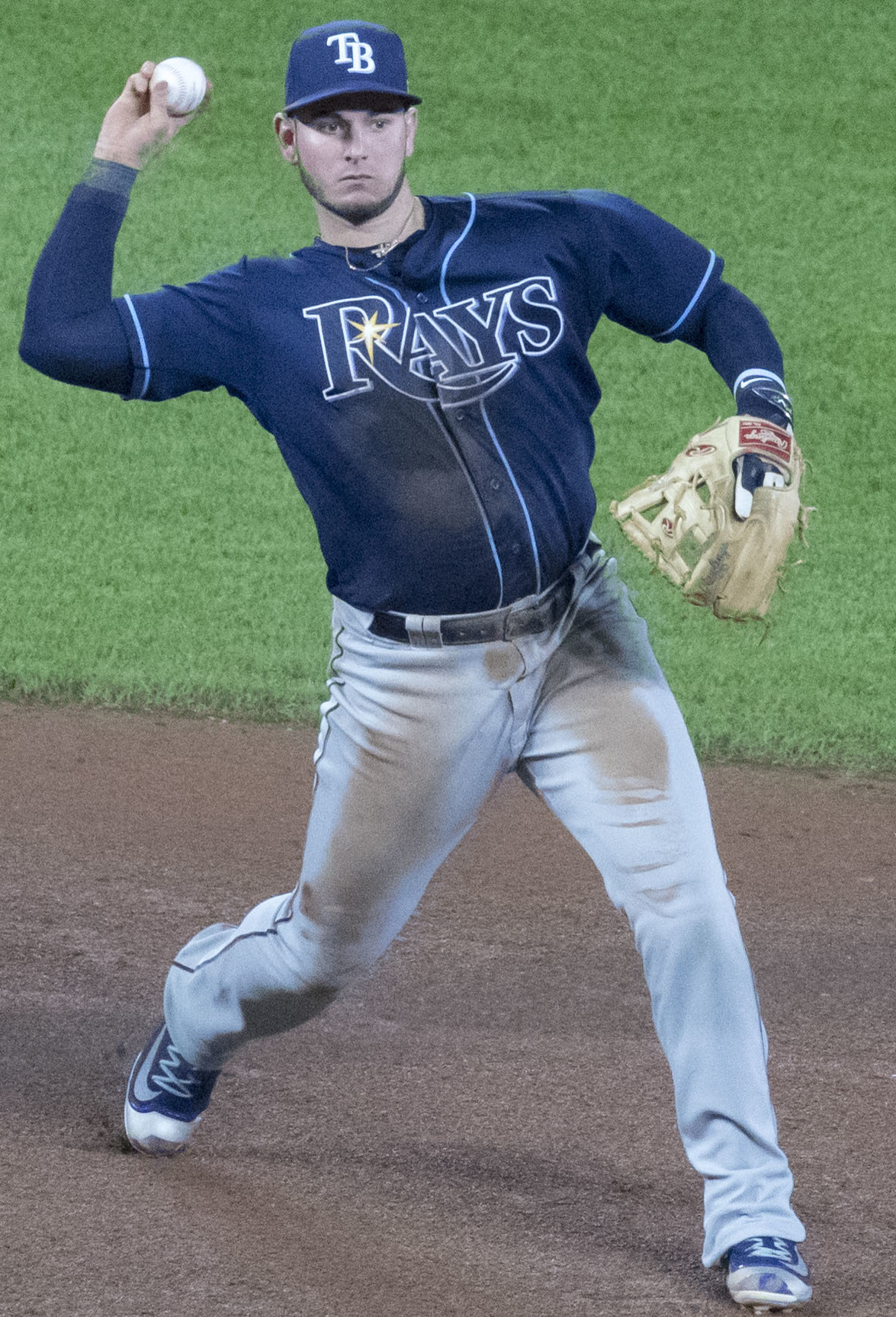 Rays at Orioles 9/21/17